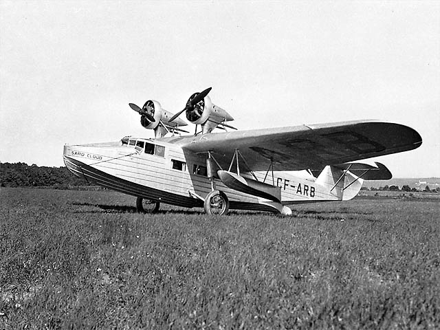 Saro Cloud